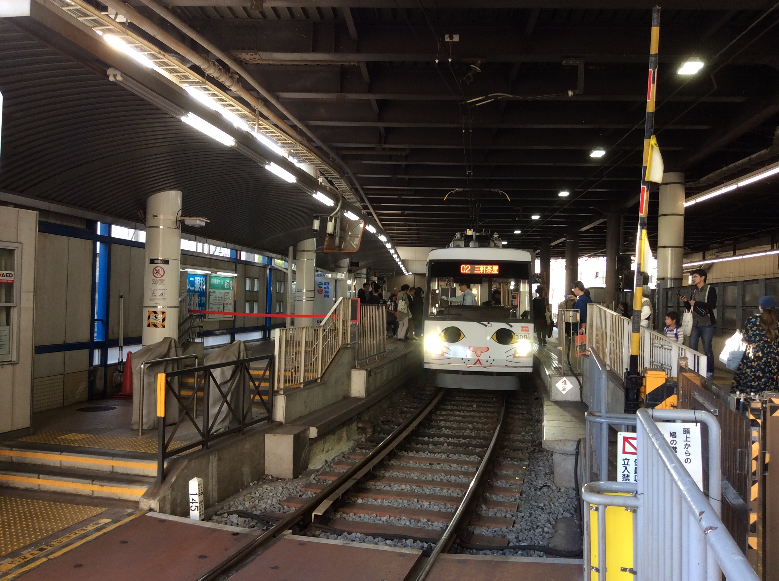 Tokyu 300 series EMU set 308 at Shimo-Takaido Station in Tokyo, Japan